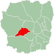 Location map of Soavinandriana region in Antananarivo province.